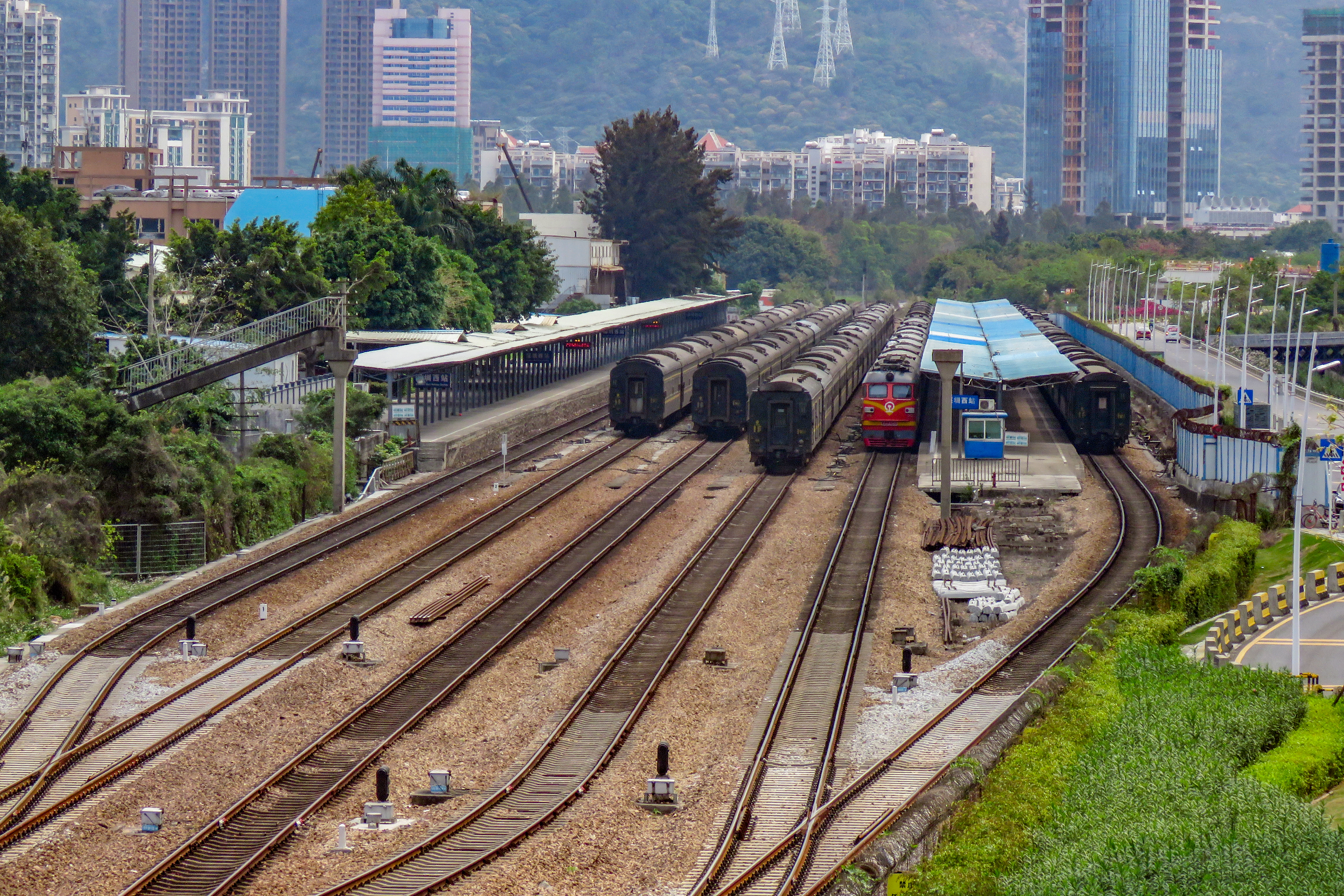 Just exploring! I'm not heading for the massive fan...